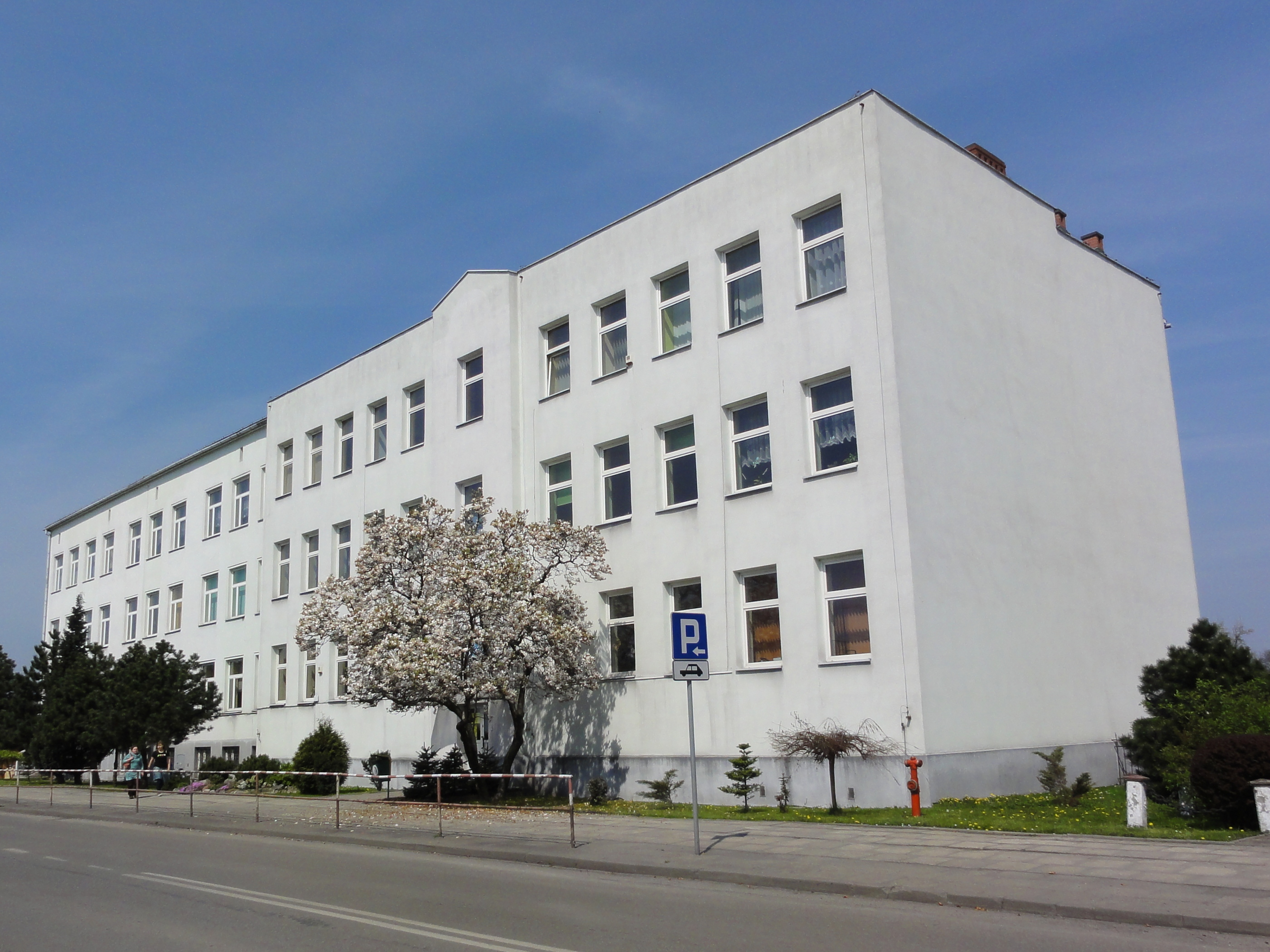 Elementary school (in front) in Chybie